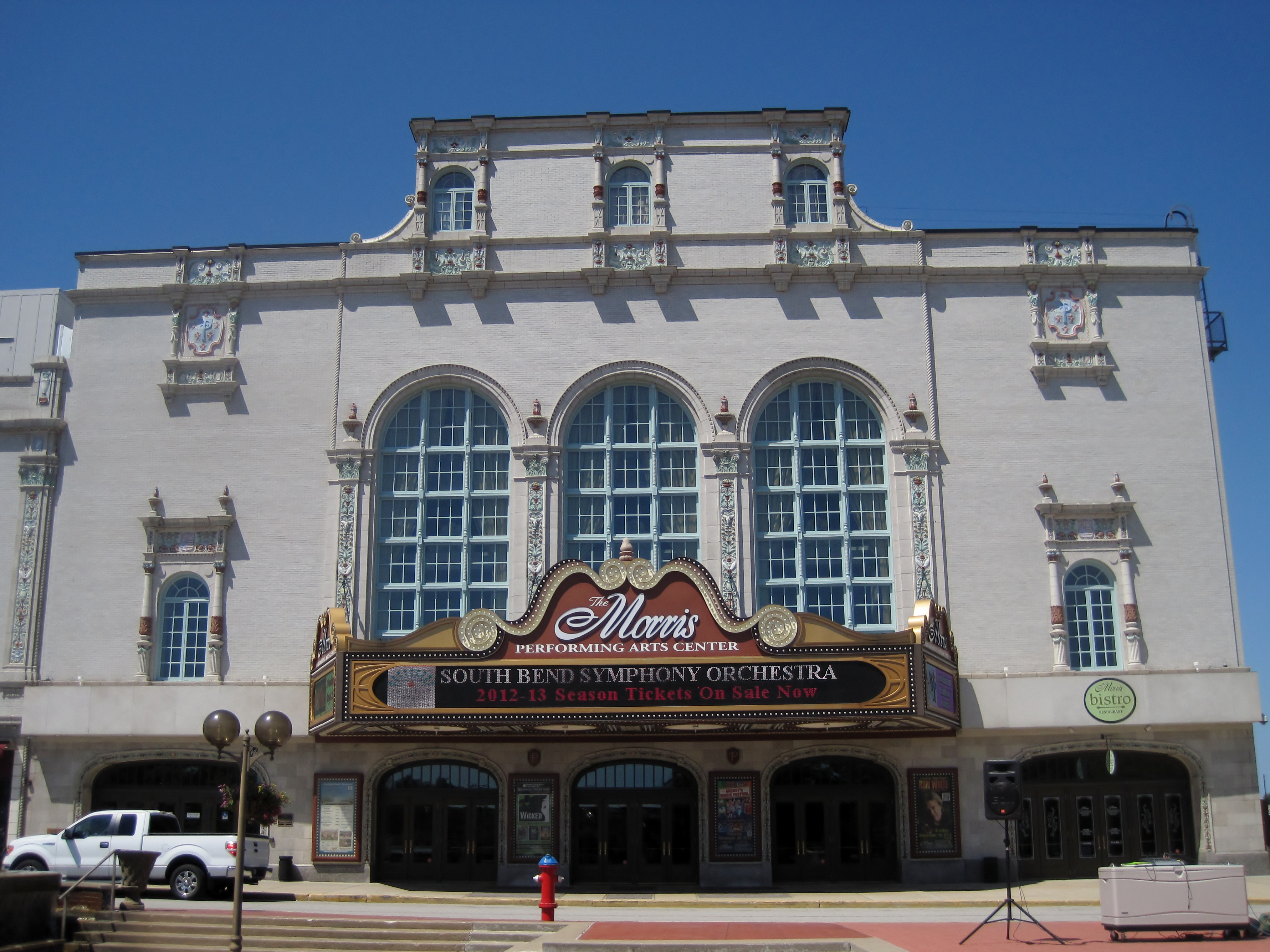 The Palace Theater in South Bend, IN (1921). It was a new home for the Orpheum Theater, a vaudeville theater. The new building was constructed with the ability to show moving pictures. The first sound movie to be shown here was in 1929 and the last vaudeville show in 1930. Today, it is home to the South Bend Symphony Orchestra.